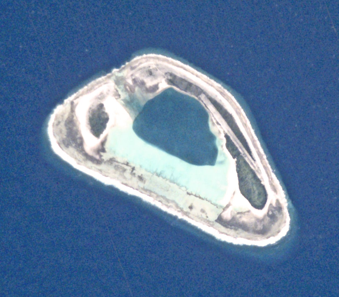 Atoll Nukutepipi (Duke of Gloucester Islands, Tuamotu Archipelago, French Polynesia), from space.